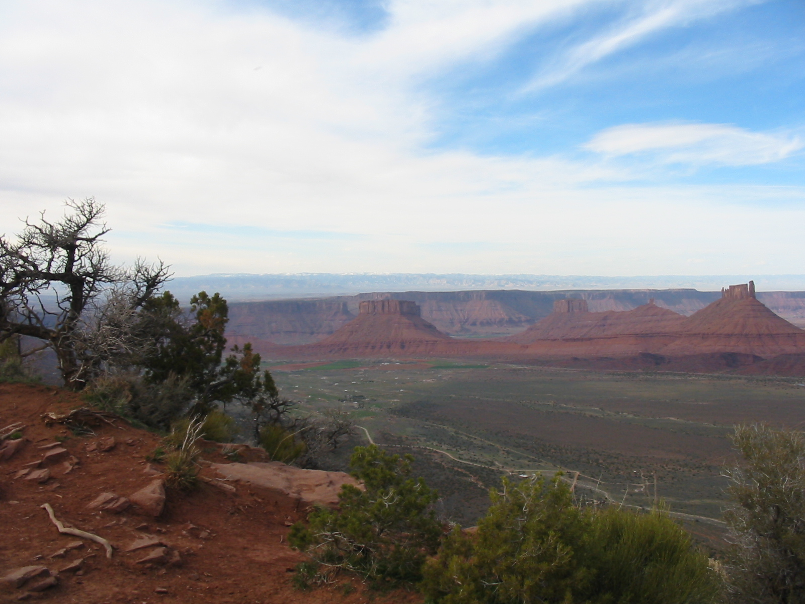 Porcupine Ridge overlooking Castle Valley, Moab, UT